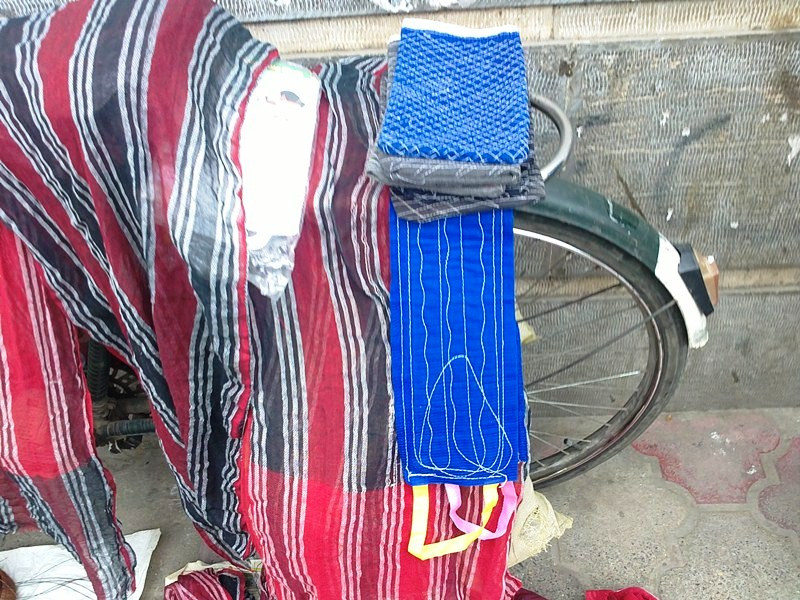 Gamucha (red) and Washcloth (blue) , iran, 2013